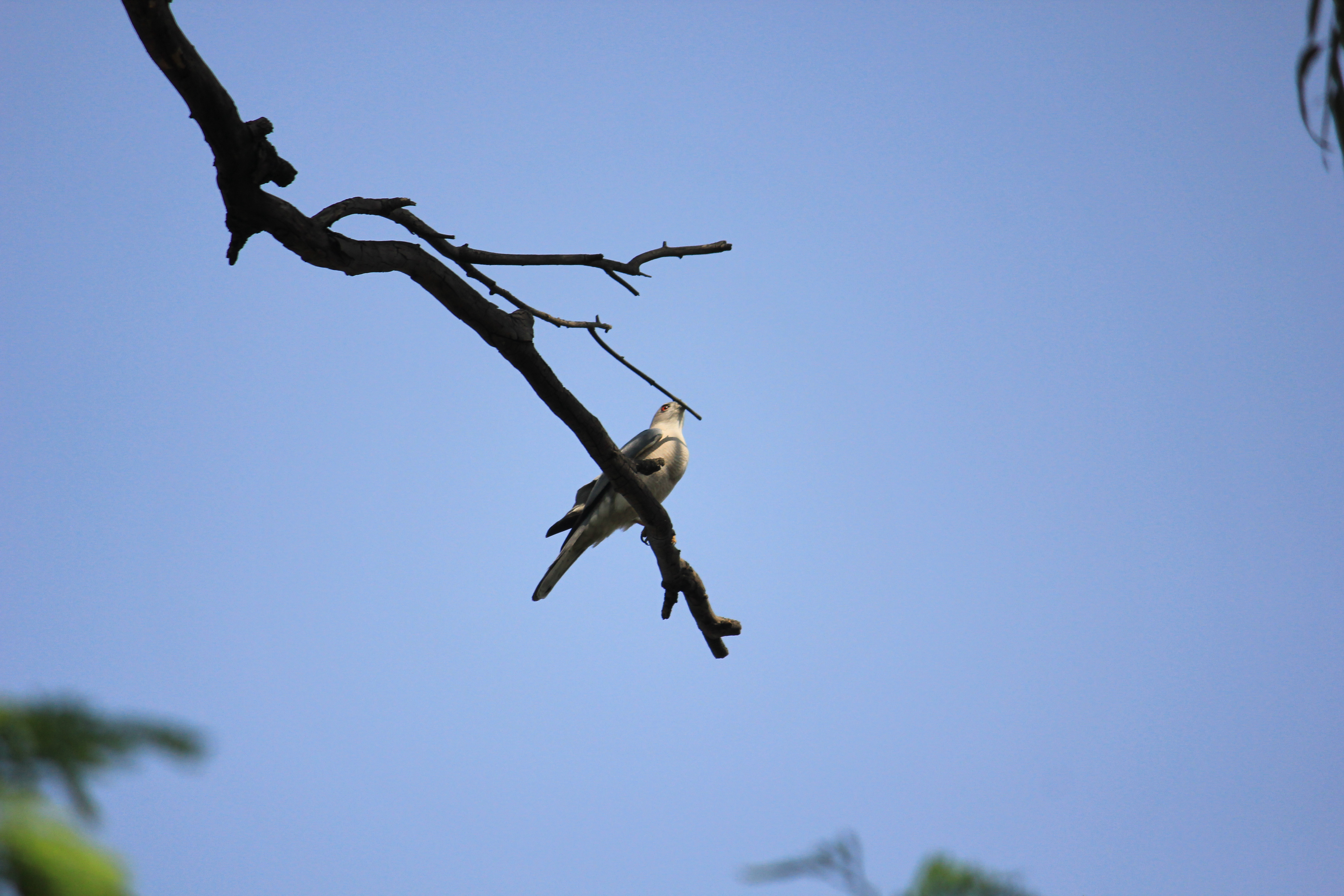 a little banded goshawk commonly found all over indian sub continent. this picture was taken during their mating season.